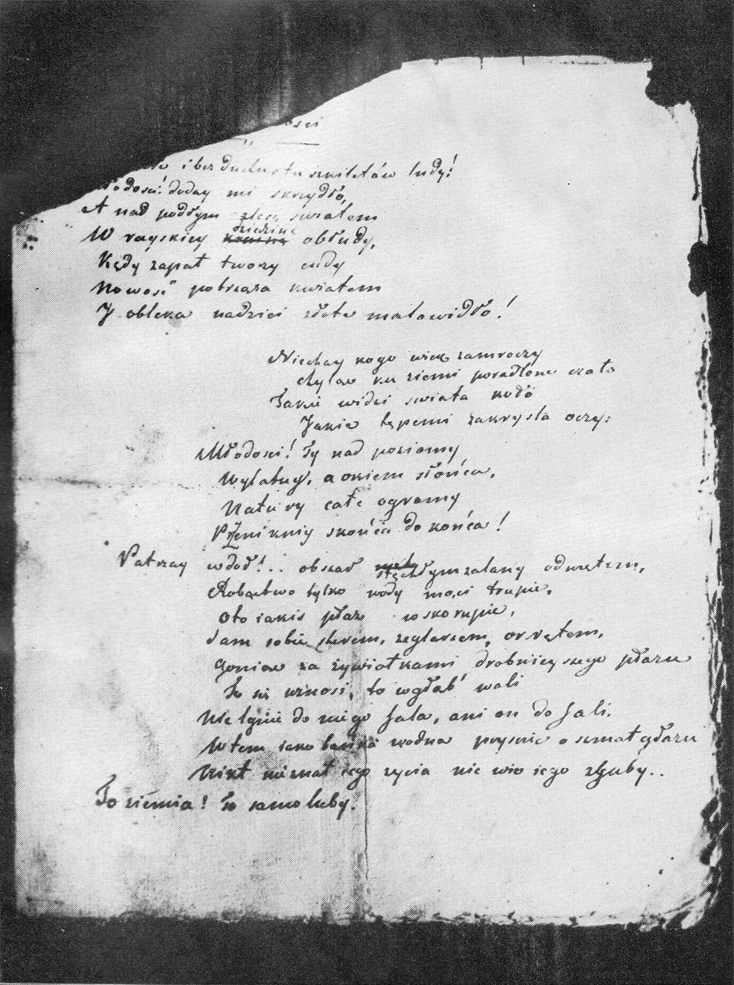 Fragment of the Ode to Youth manuscript by Adam Mickiewicz